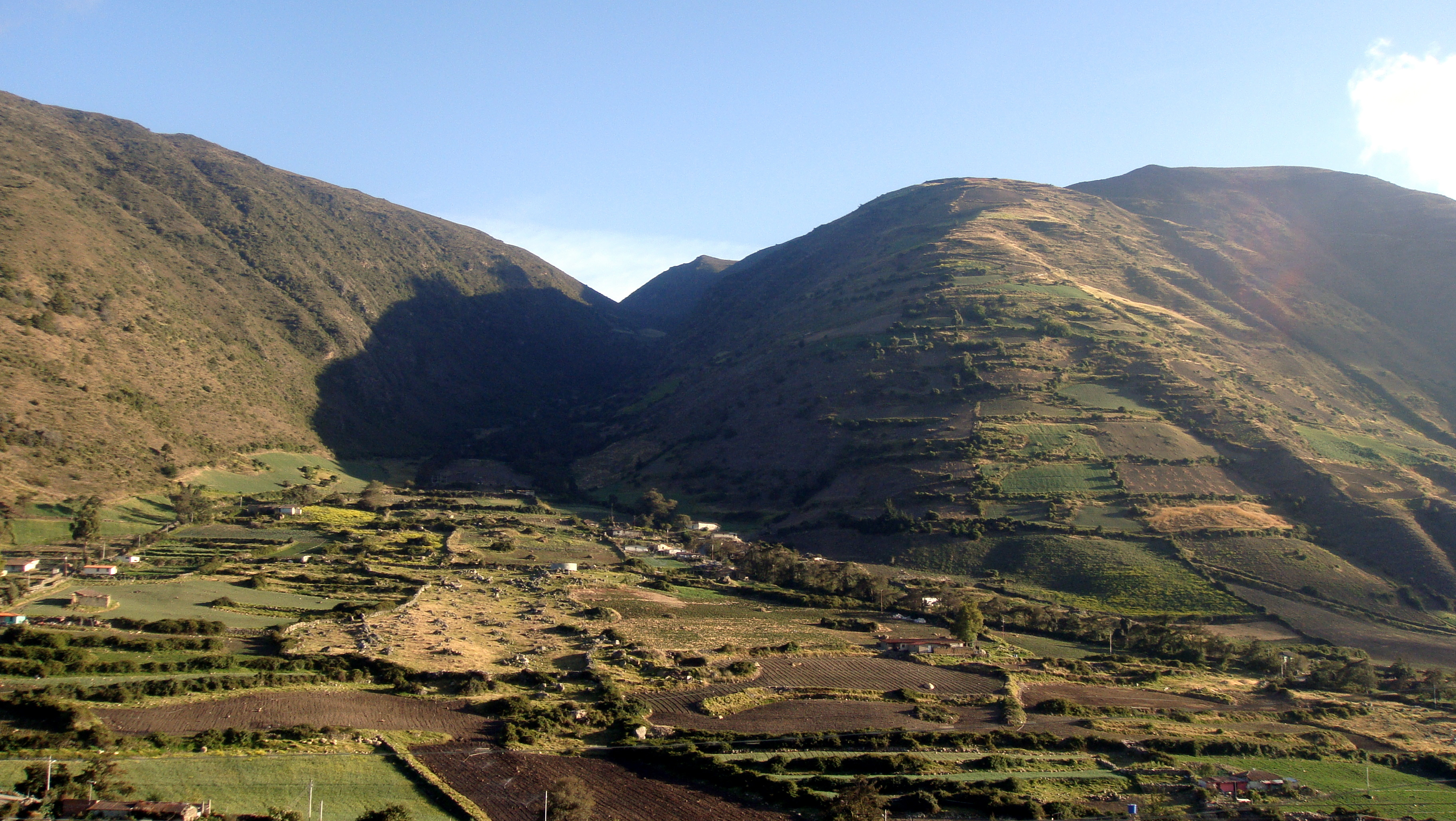 The countryside in Mérida, Venezuela.